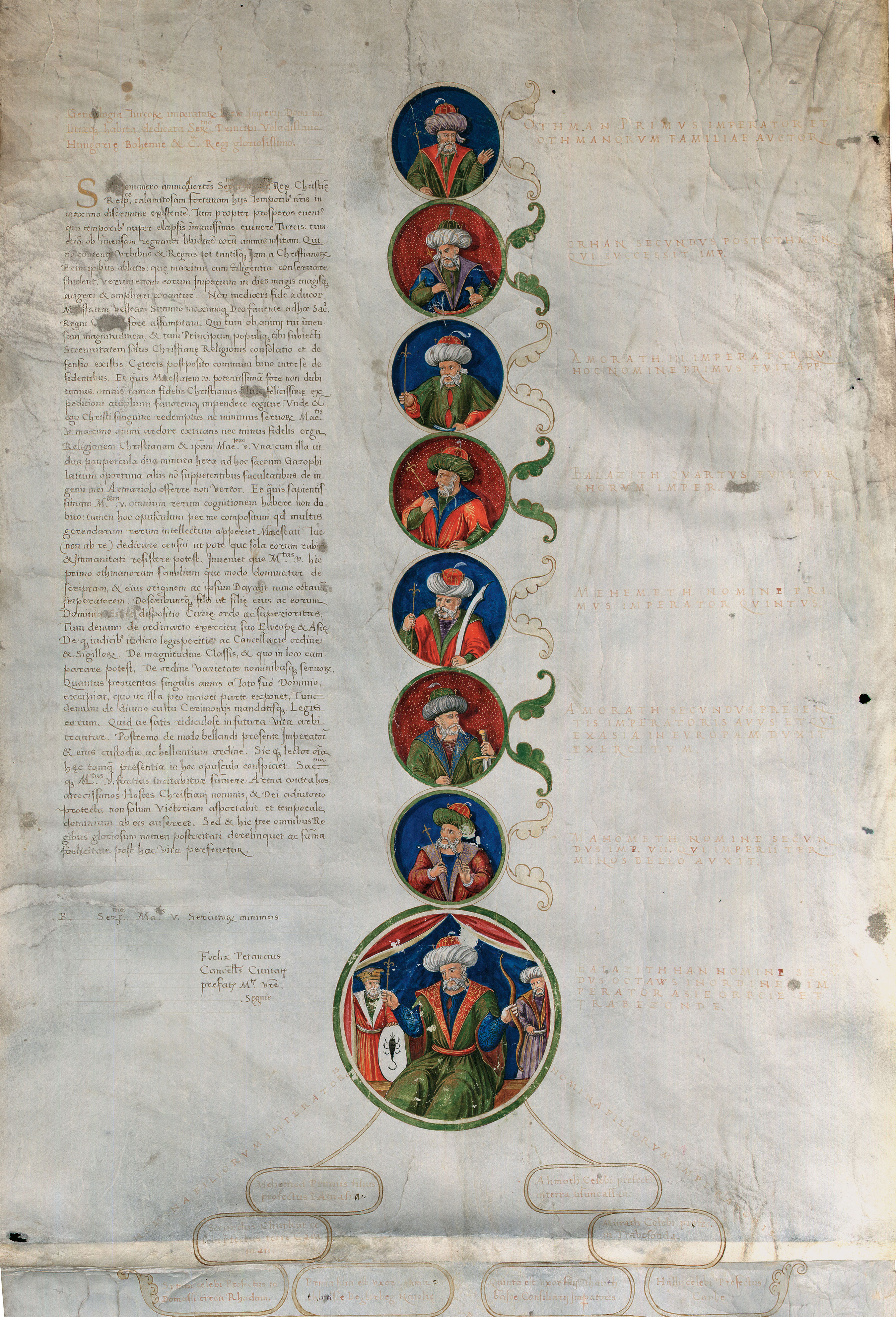 Felix Petancius Genealogia Turcorum imperatorum circa 1502 1512, Buda, Pergamen Cod. Lat. 378